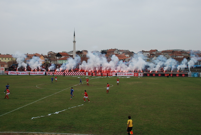 Skifterat, the KF Gjilani's ultras group